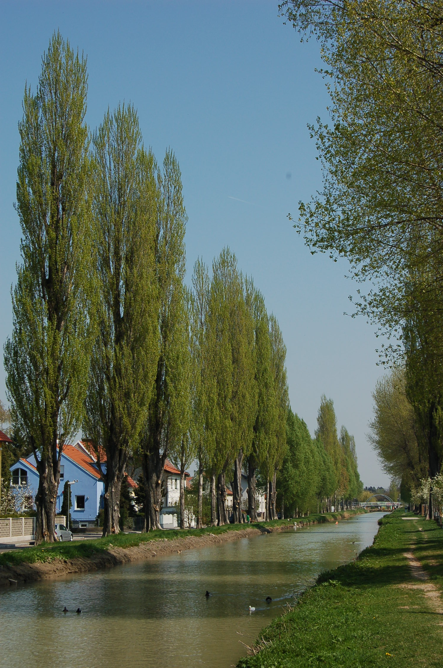 Wiener Neustaedter Kanal alongside Rechte Kanalzeile, i.e. upstream the "Triangel", Wiener Neustadt, Lower Austria This media shows the natural monument in Lower Austria with the ID BN-115.